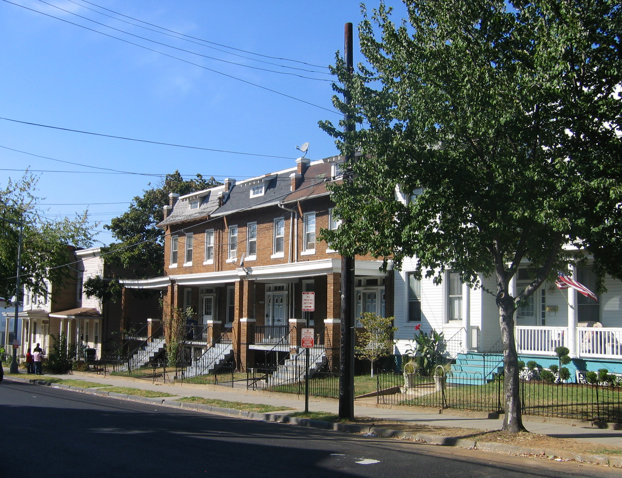 Homes along W Street, SE in Anacostia (Washington, D.C.)